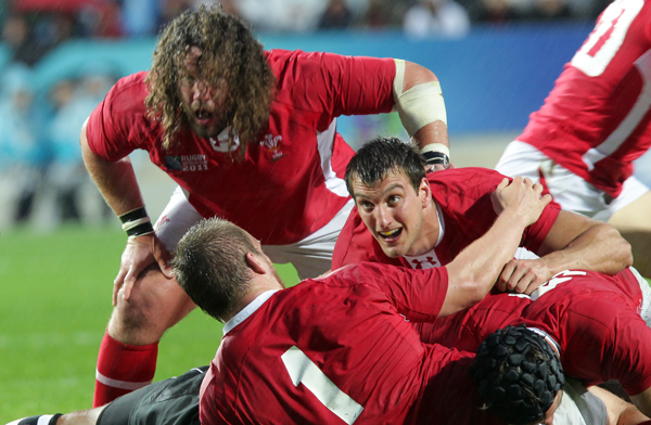 coupe du monde de rugby 2011 nouvelle zelande pays de galles fidgi